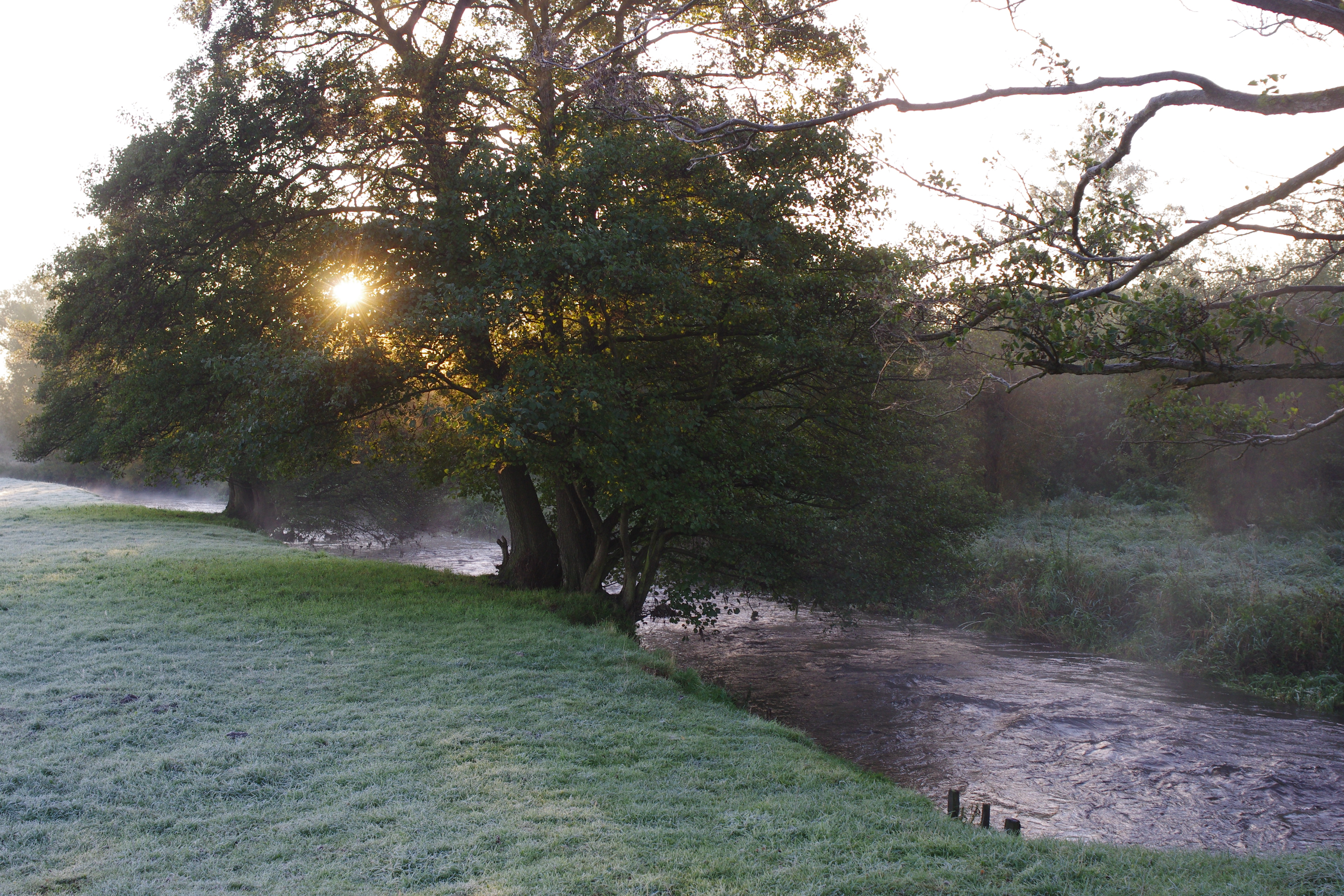 River Seeve in the natural reserve Untere Seeveniederung a few kilometers before the Seeve flows into the Elbe.